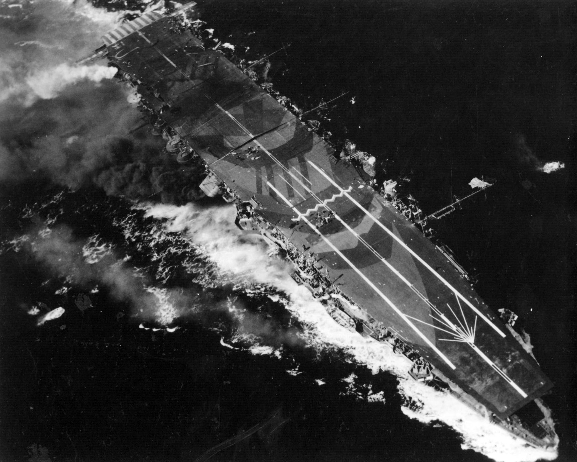 The Japanese carrier Zuiho pictured during the Battle of Cape Engano. Note the battle damage to her flight deck. This photograph was shot by a U.S. Navy Grumman TBM Avenger from Torpedo Squadron VT-20 from the aircraft carrier USS Enterprise (CV-6).